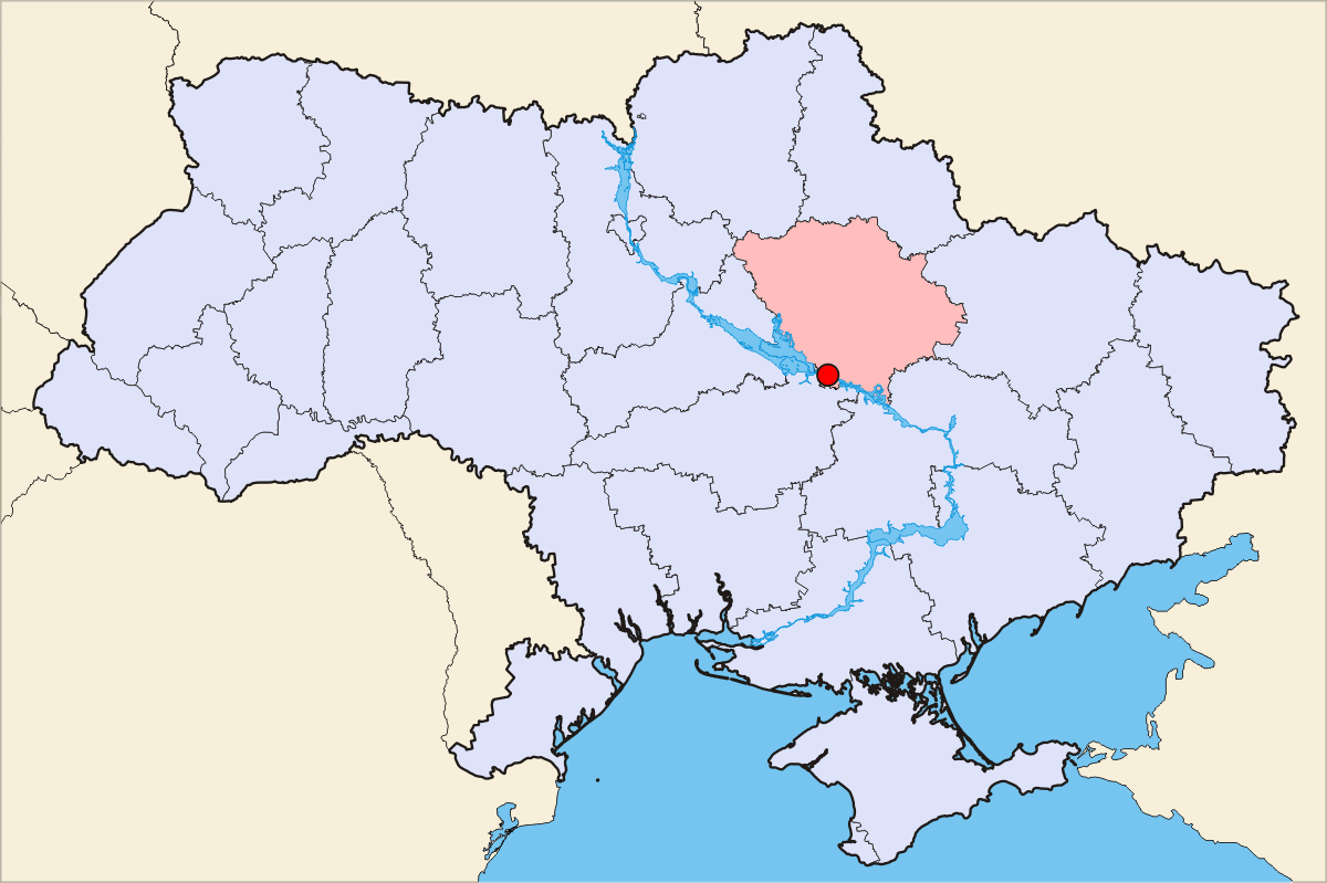 Description = Kremenchuk geographical position Source = own work, Skluesener Date = 15.01.2006 Author = Skluesener Credits = Colours chosen according to a map of steschke